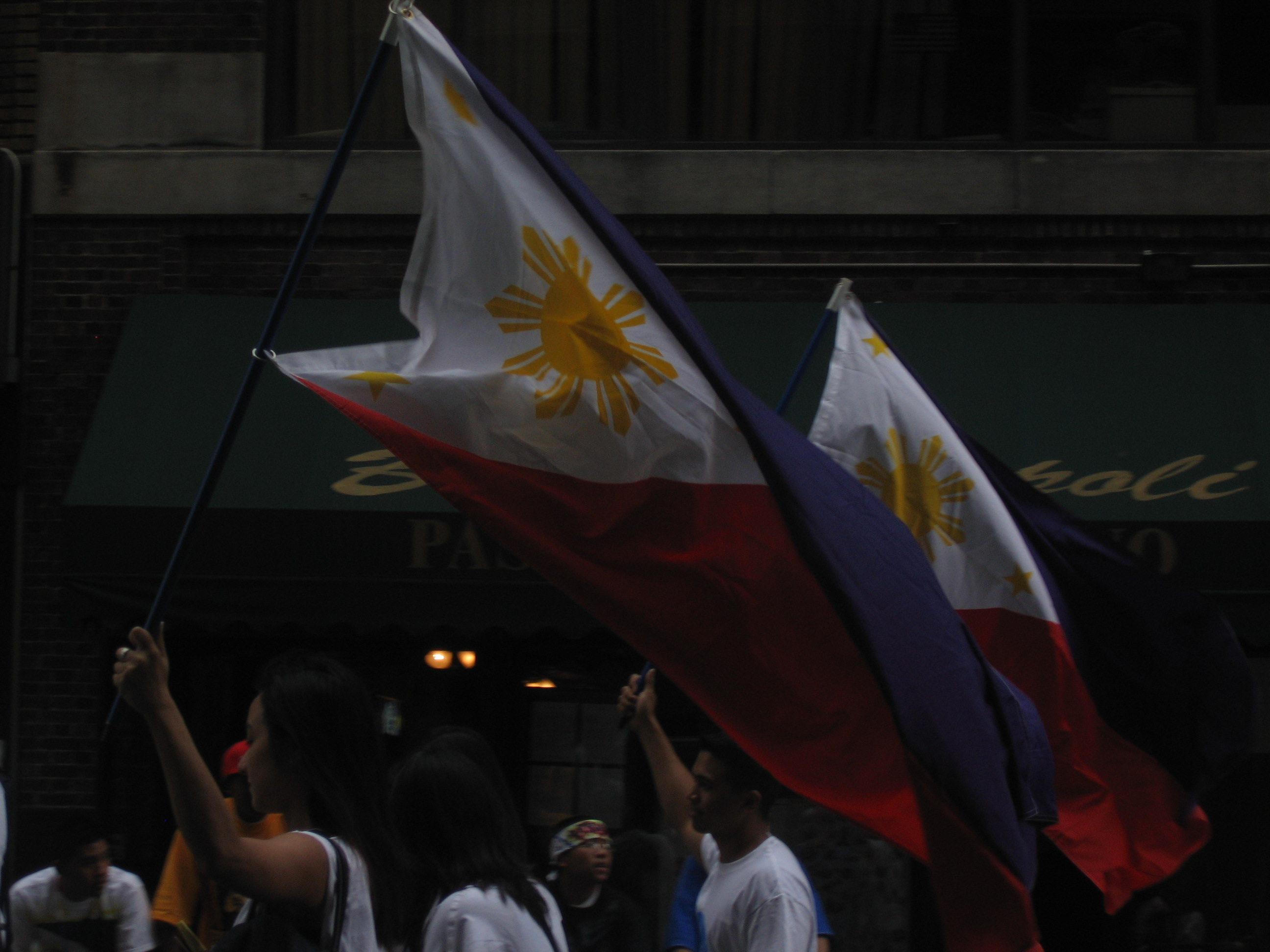 Flag-carriers at the 2006 Philippine Independence Day Parade in New York City.